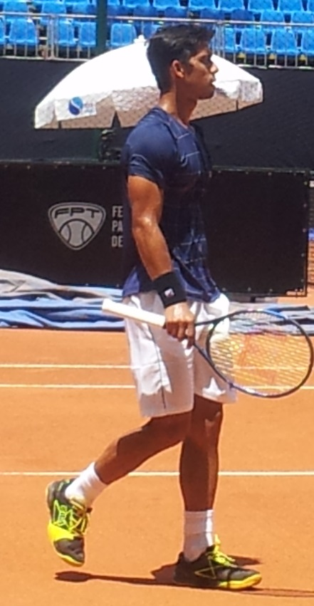 José Pereira], tennis player from Brazil at 2016 Brasil Open qualifying at São Paulo